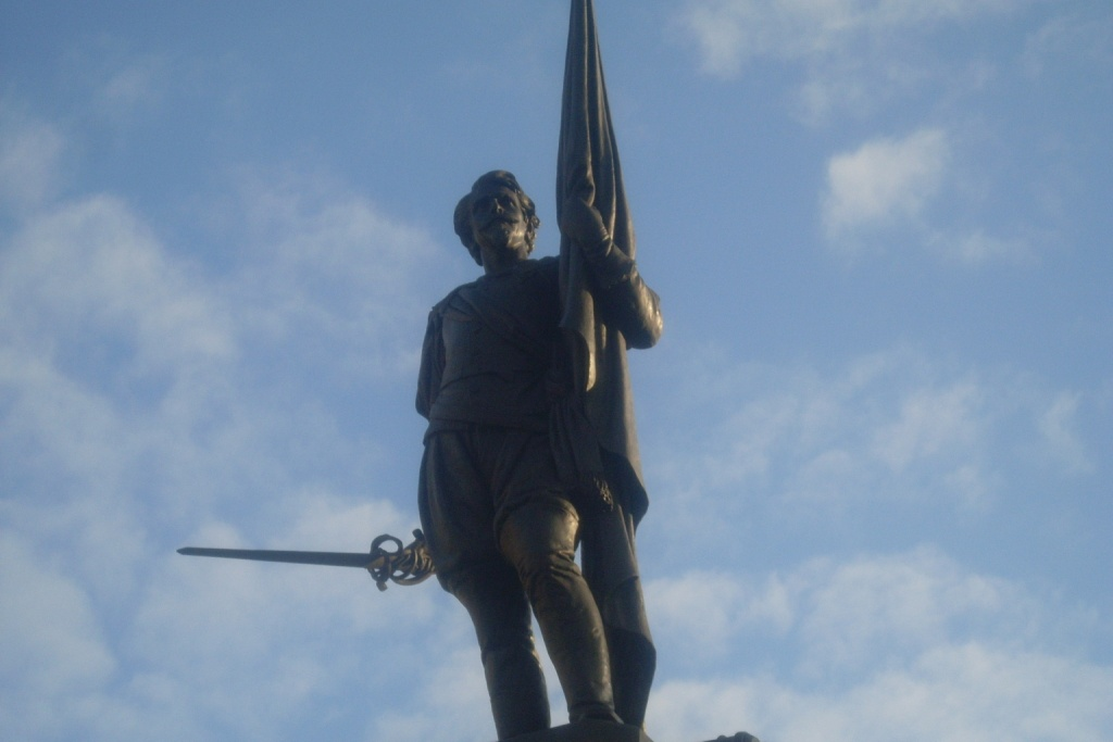 Statue of Antonio de Oquendo ,Donostia